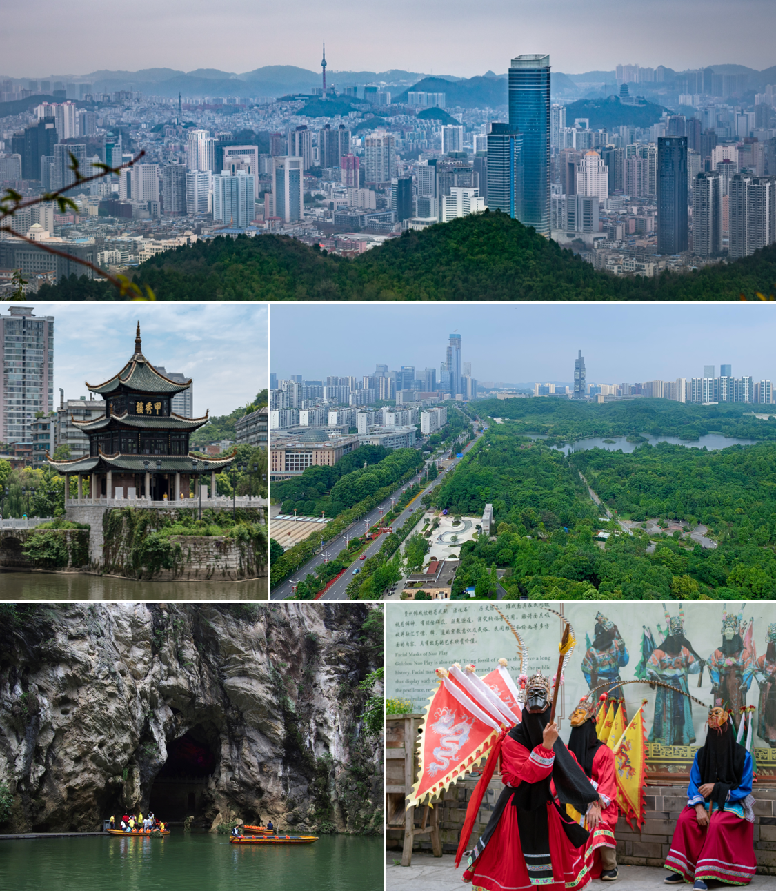 A montage of various images of Guiyang already available on wiki commons.